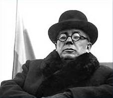 Avgustyn Voloshyn. Author unknown; past copyright (subject died in 1945)